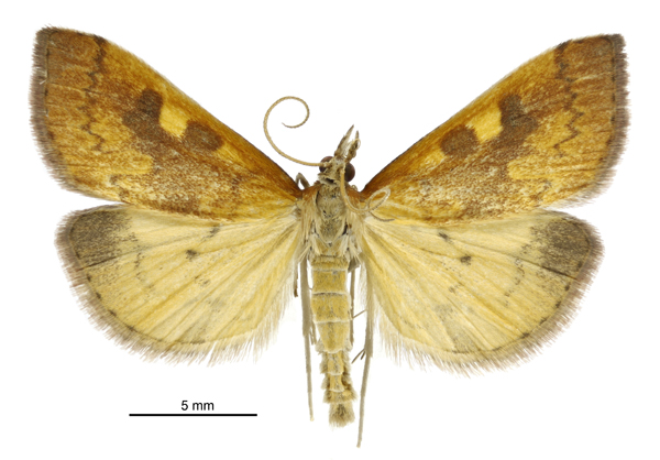 Male specimen of Mnesictena flavidalis photographed by Birgit E. Rhode, Landcare Research New Zealand Ltd.